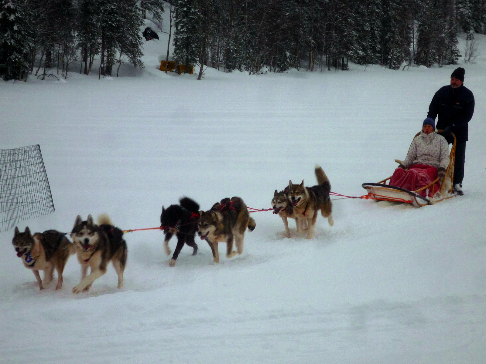 Mel and Paul on a Husky ride at Lammintupa, near Ruka, Finland